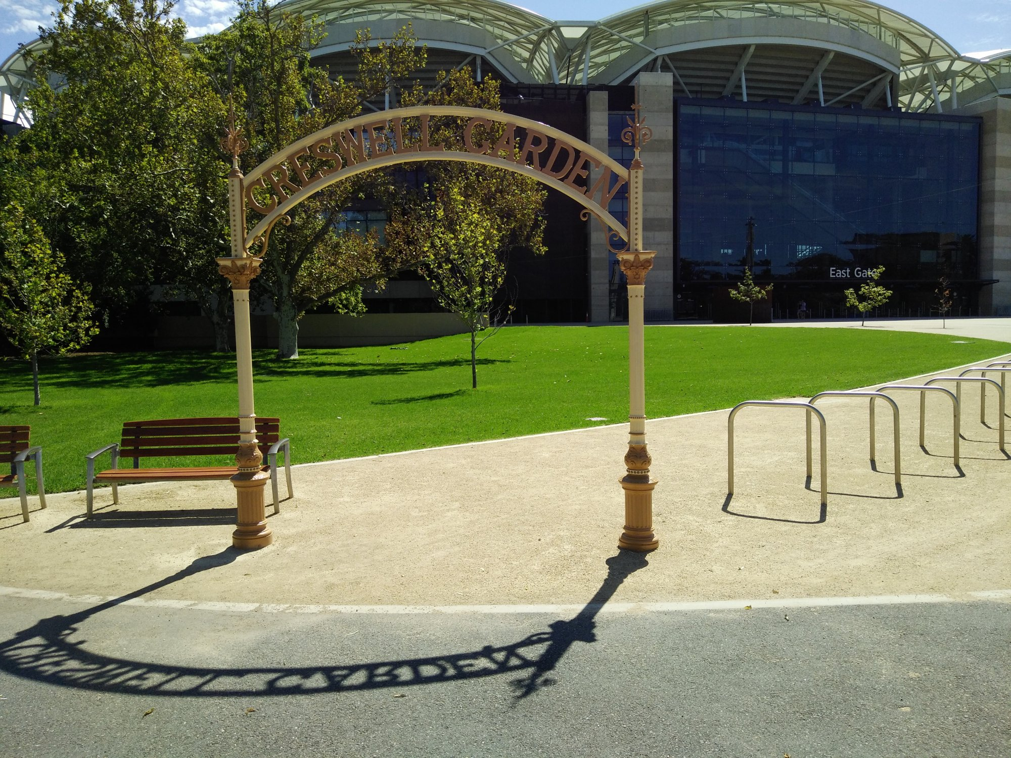 Entrance to Creswell Gardens